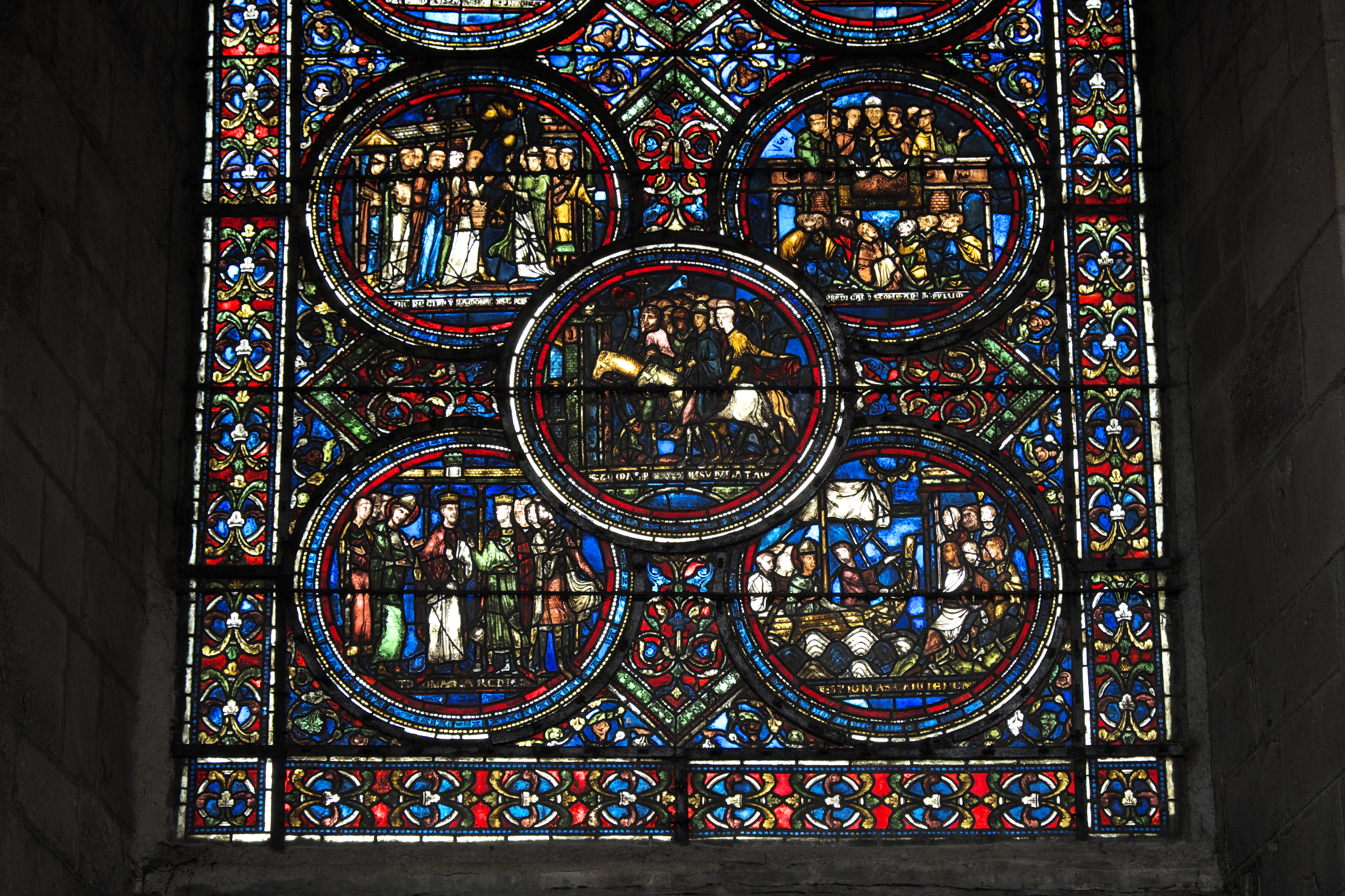 Sens Cathedral, Yonne, stained glass window (bay 23), early 13th century, Scenes from the Life of Saint Thomas Becket, Meeting with Henry II and Murder in Canterbury Cathedral; meeting